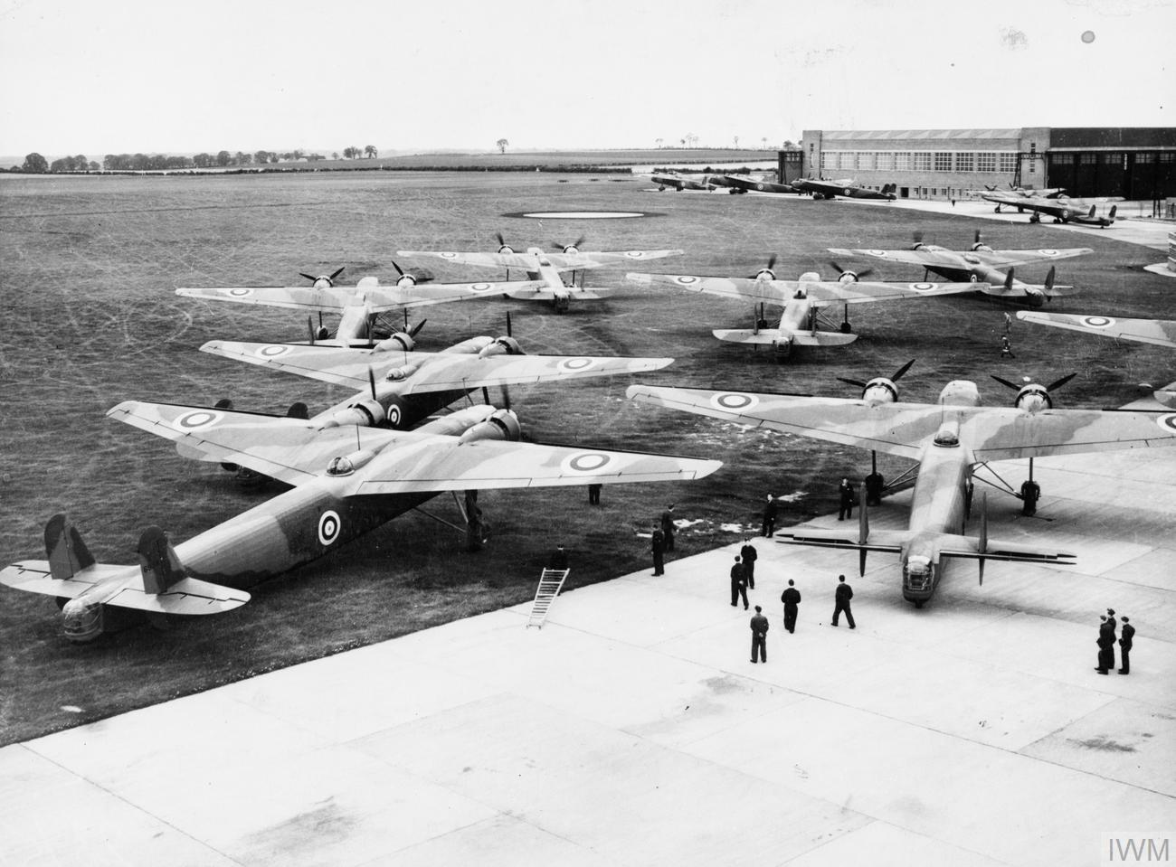 The Royal Air Force in the 1930s Handley Page Harrows of No. 214 Squadron RAF, parked in front of the hangars at Feltwell, Norfolk, in the spring of 1938.